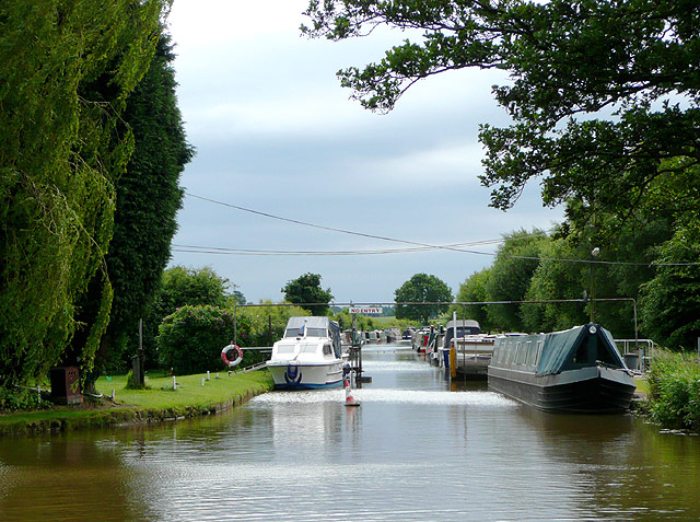 The Lichfield Canal at Huddlesford Junction This junction on the Coventry Canal shows the eastern end of the former Wyrley and Essington Canal. At present, moorings are available for a few hundred metres, and the rest of the route to Ogley Junction on the Birmingham Canal Navigations is under restoration, together with the Hatherton Branch to the Staffordshire and Worcestershire Canal north of Wolverhampton. for the latest information ... and join up! It's only £10. :-)